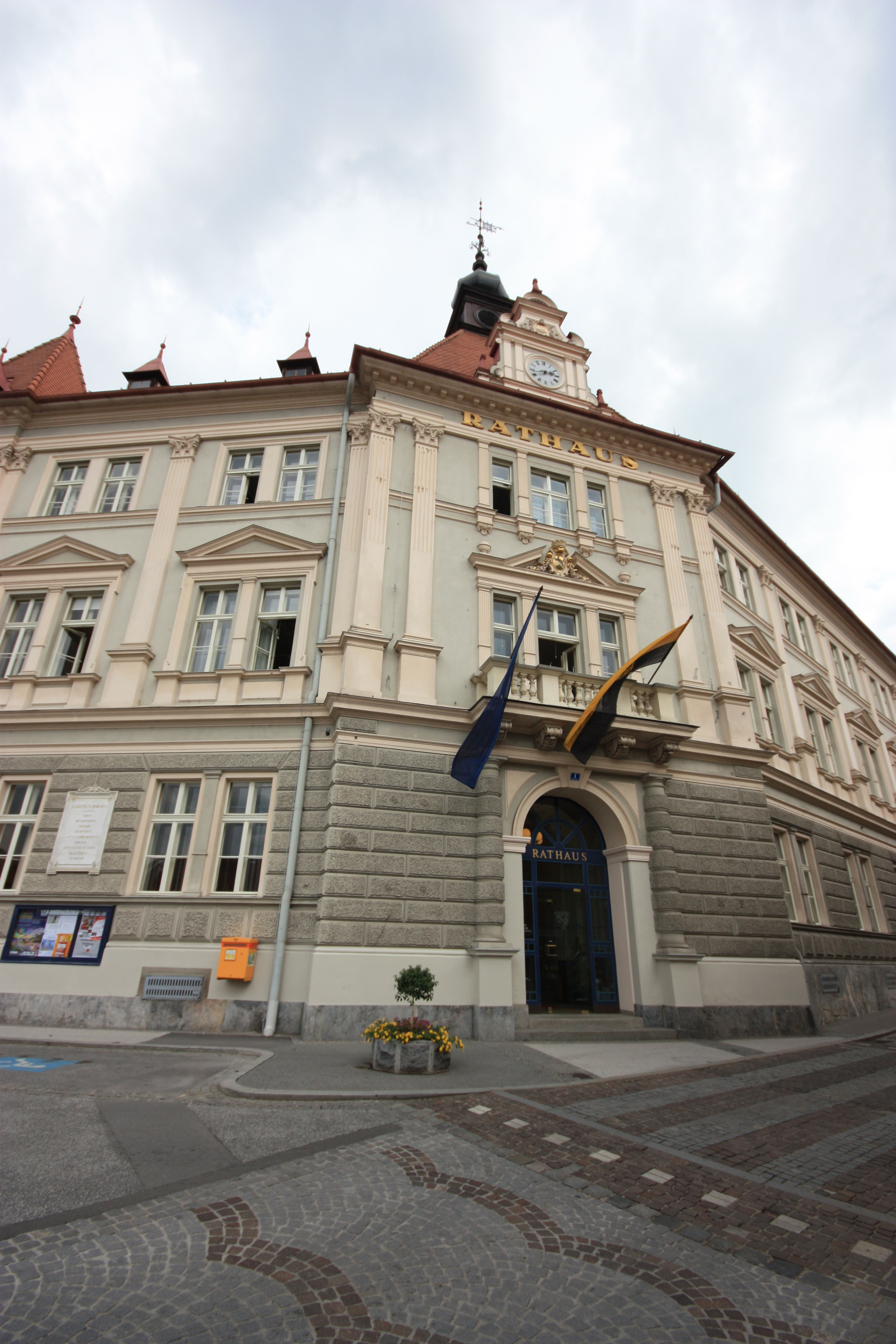 Town-hall in Wolfberg, Carinthia